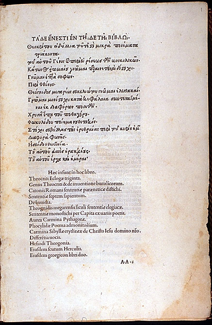 Theocritus. Idylls; Theognis. Elegies; Pythagoras. Carmen aureum; Oracula Sibyllina; Hesiod. Works (1495/96). Folium of Theocritus and Theognis' editio princeps. By Aldus Manutius, Venice.